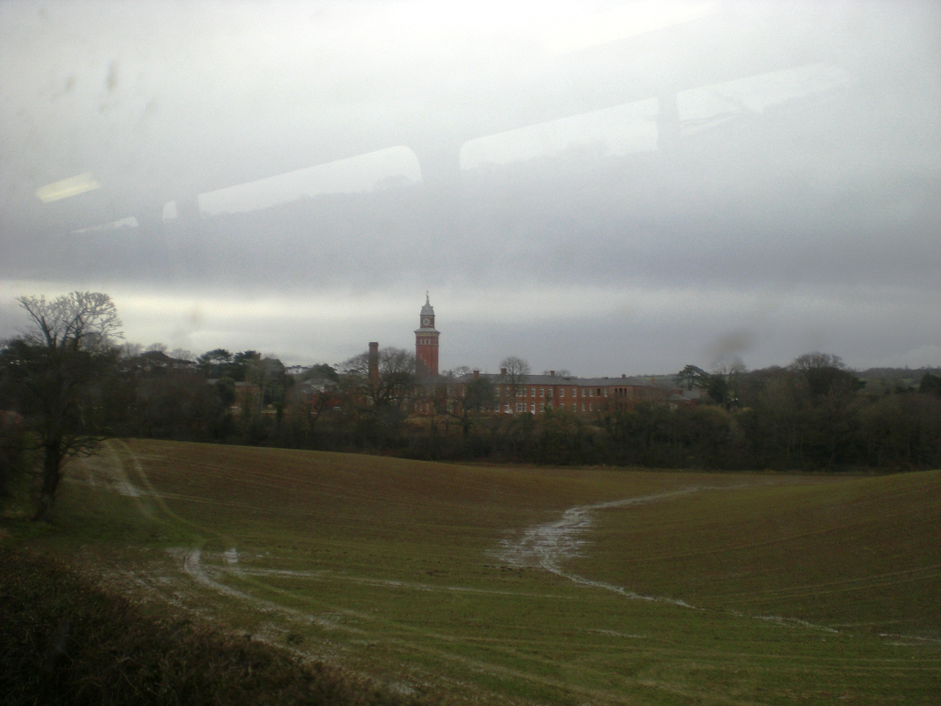 Whitecorft Hospital on the Isle of Wight, a former Mental Hospital.